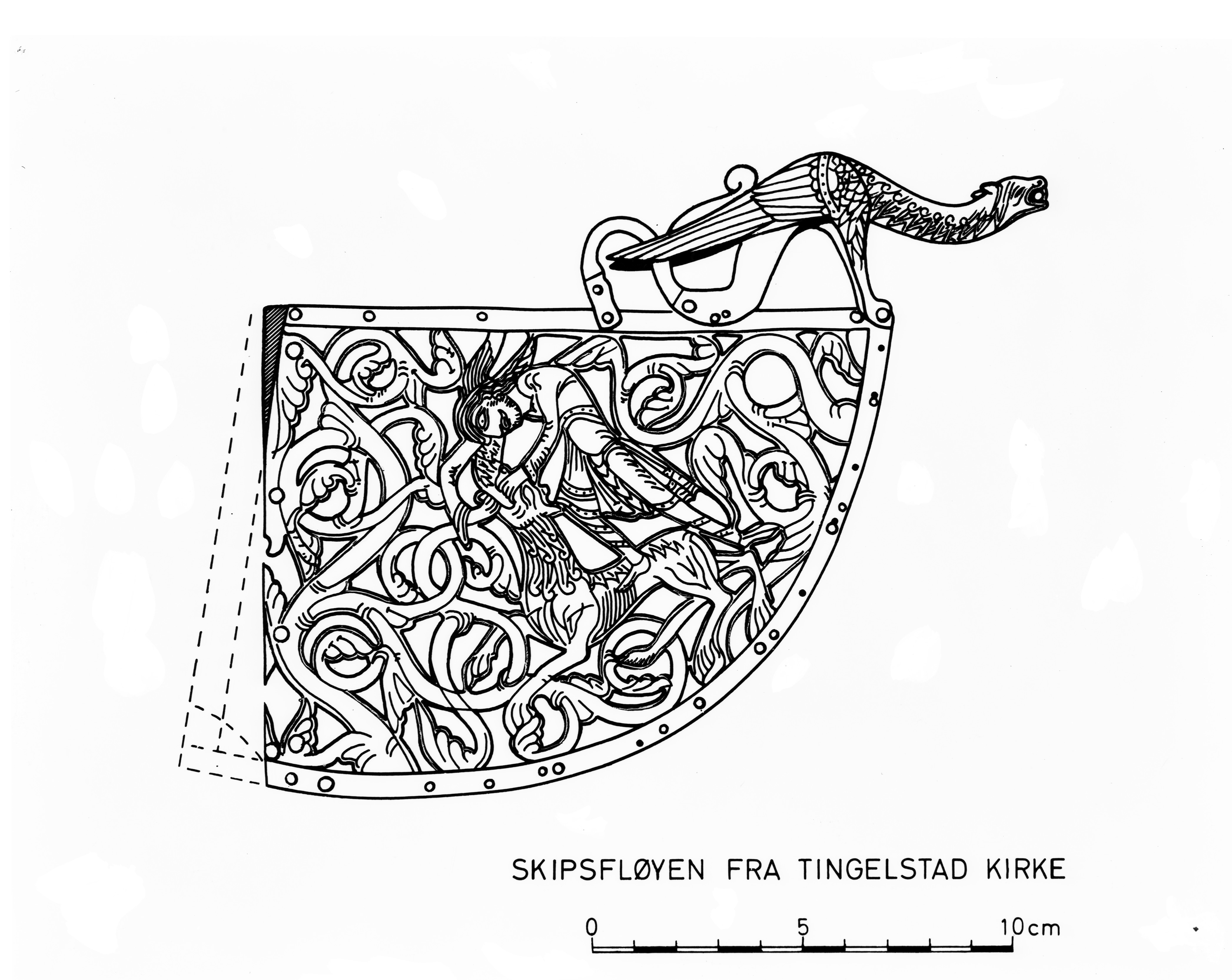 Weather vane from Tingelstad Old Church. 12th century © 2016 Kulturhistorisk museum, UiO / CC BY-SA 4.0